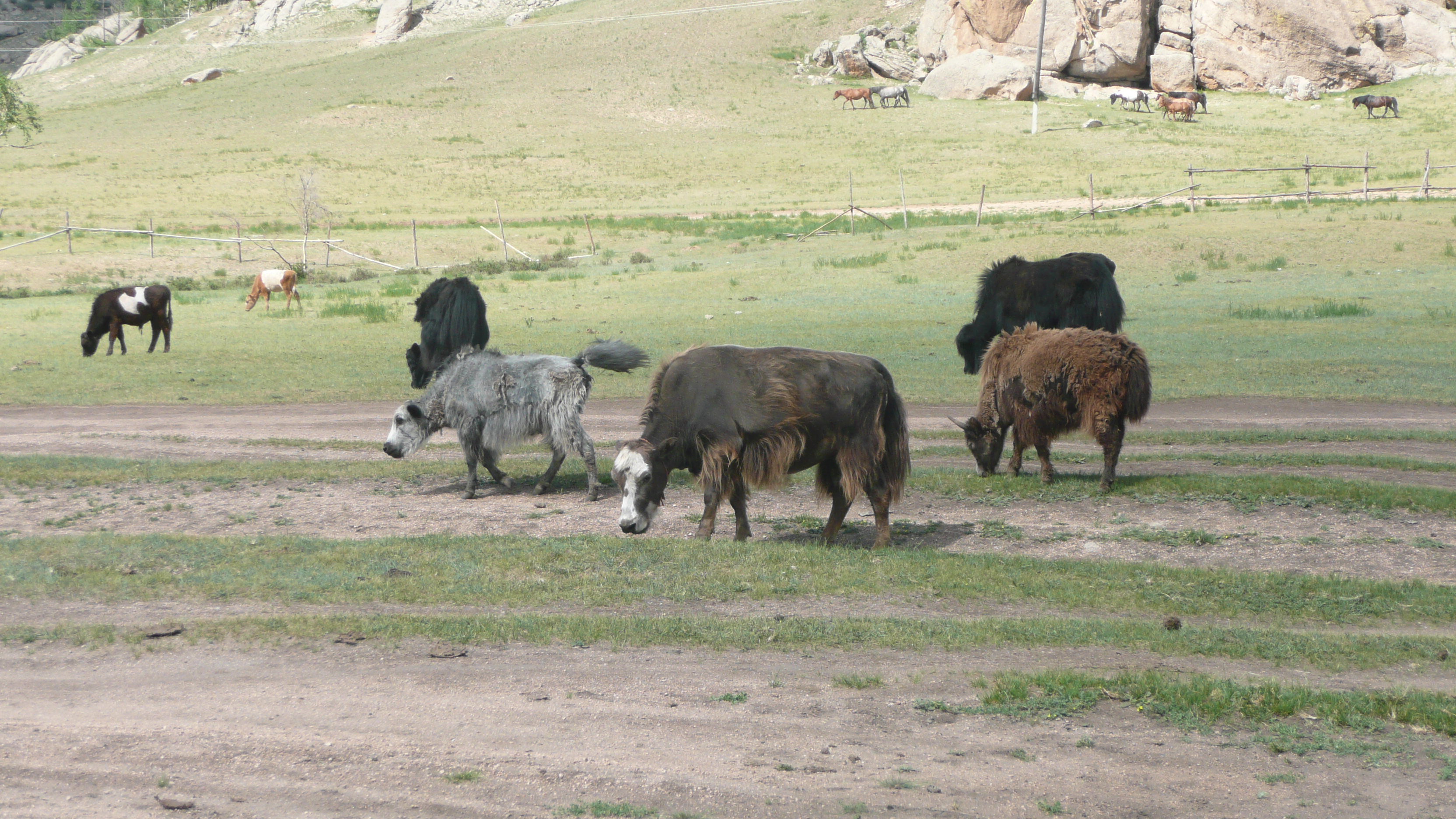 Gorkh-Terelj National Park